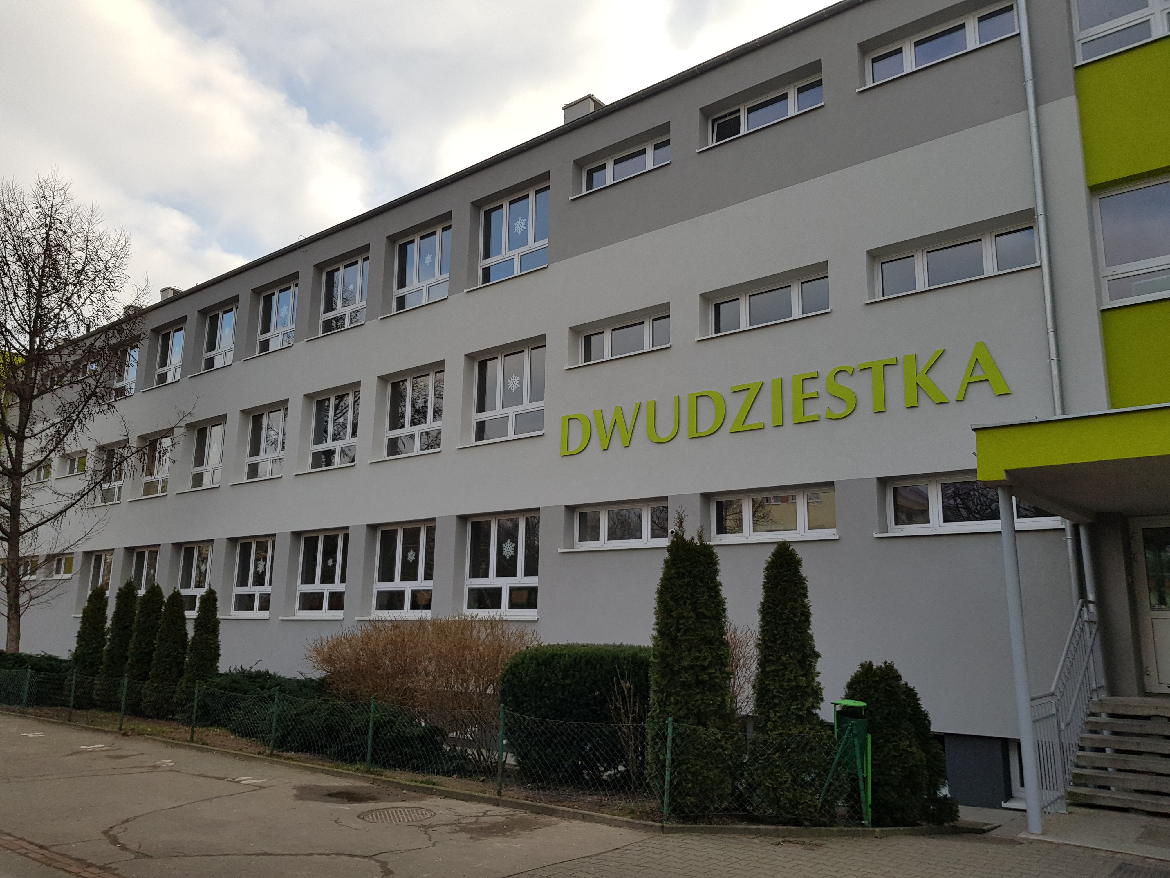 Dwudziestka - Szkoła z Duszą